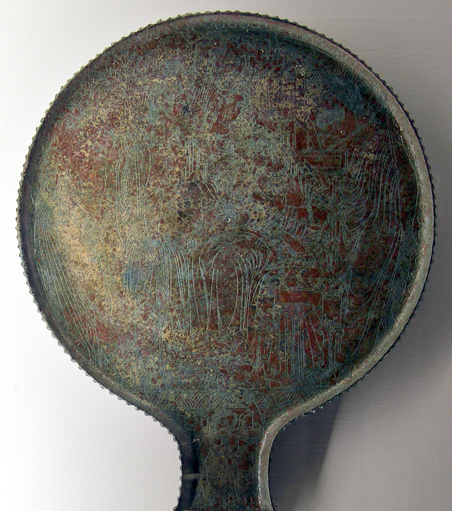 Etruscan mirrors in the Museo archeologico nazionale (Florence)